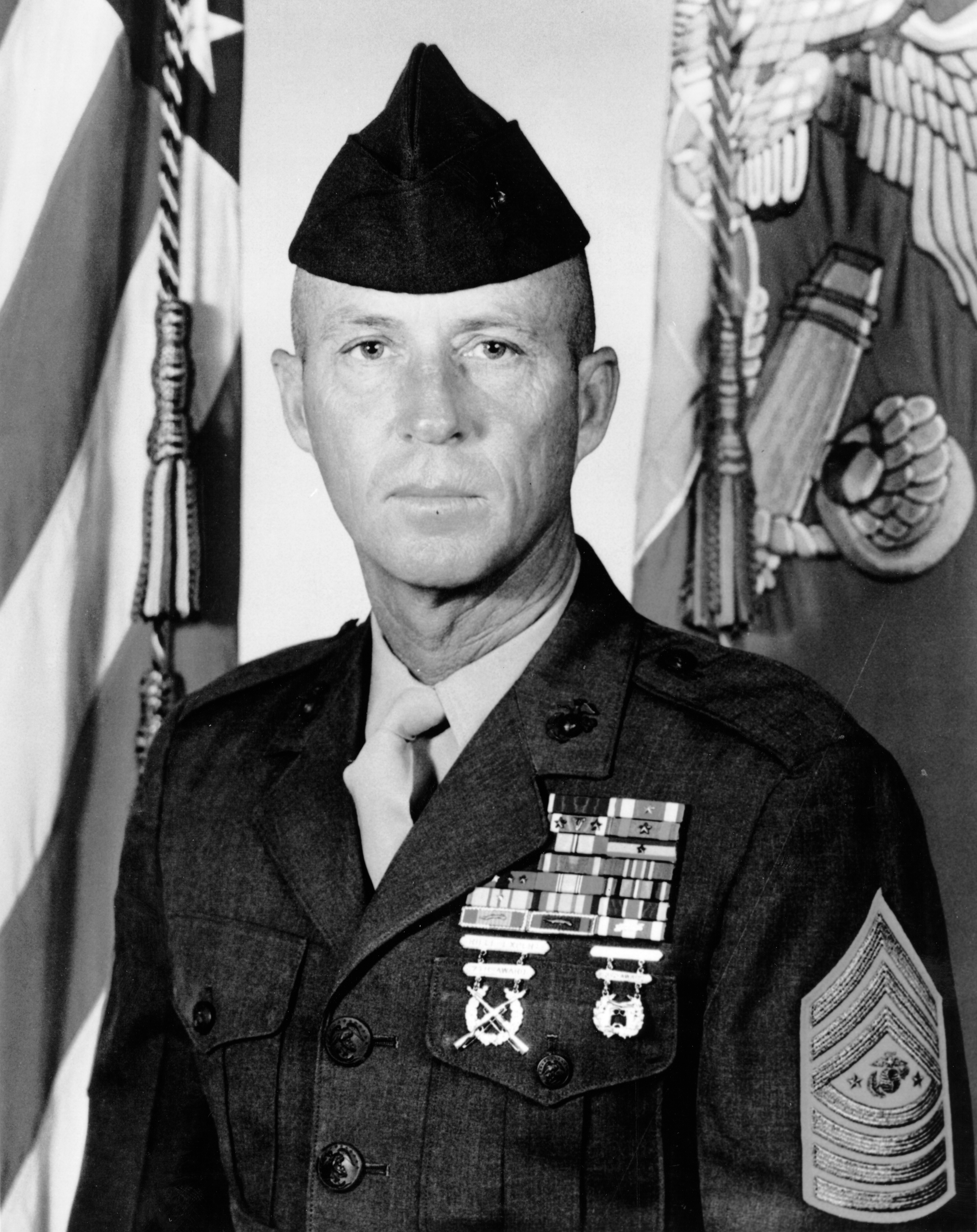 Sergeant Major David W. Sommers, 11th Sergeant Major of the Marine Corps; image from official USMC bio from (high res picture)